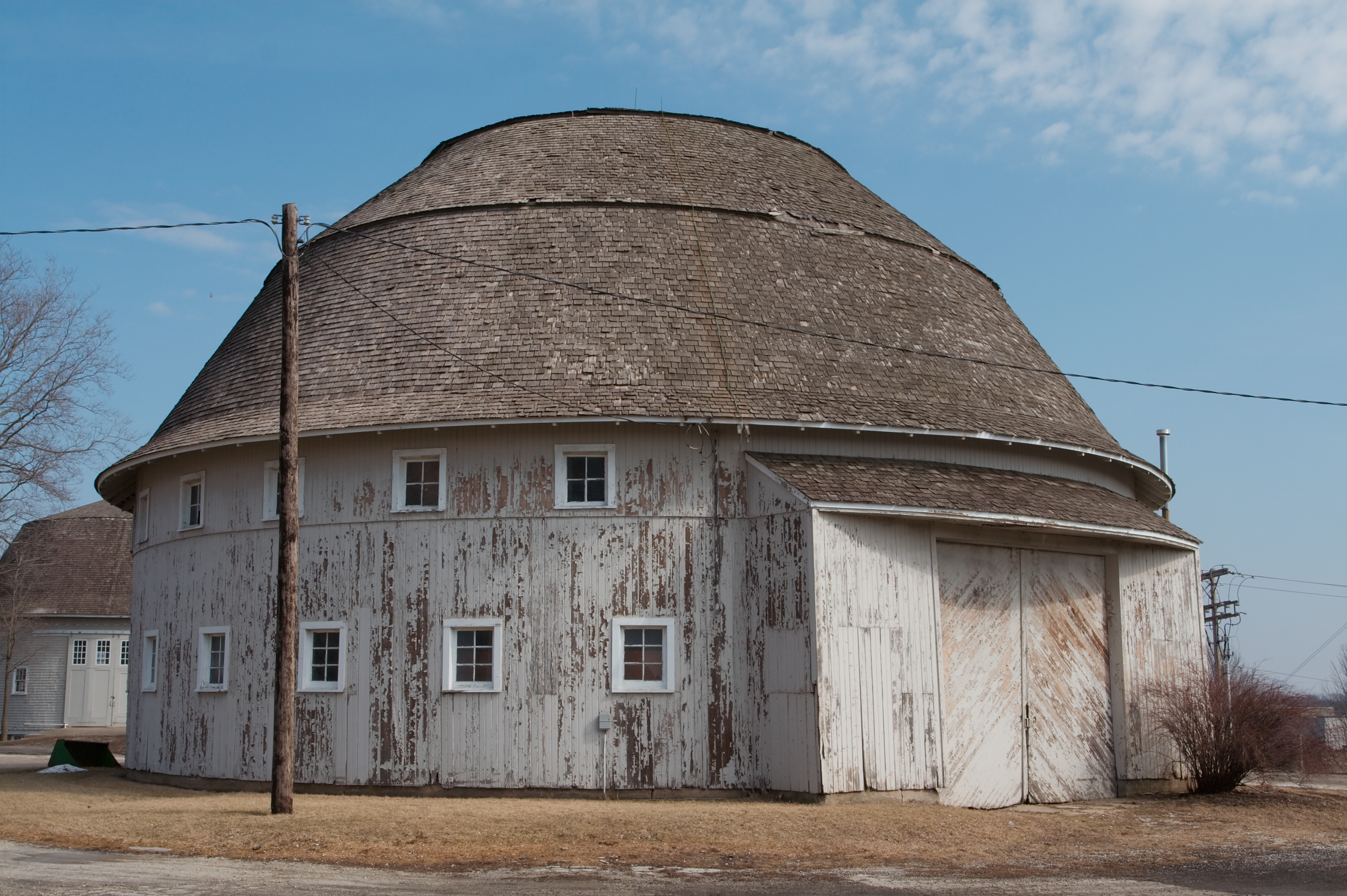 University of Illinois Experimental Dairy Farm Historic District, Urbana, IL